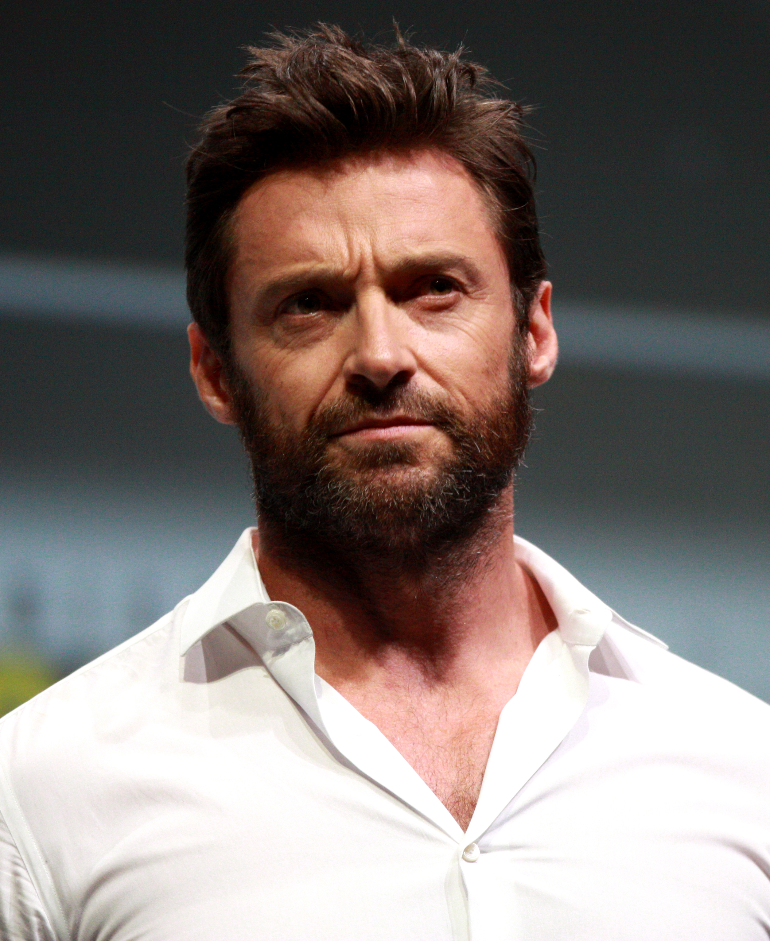 Hugh Jackman at the 2013 San Diego Comic Con International in San Diego, California.